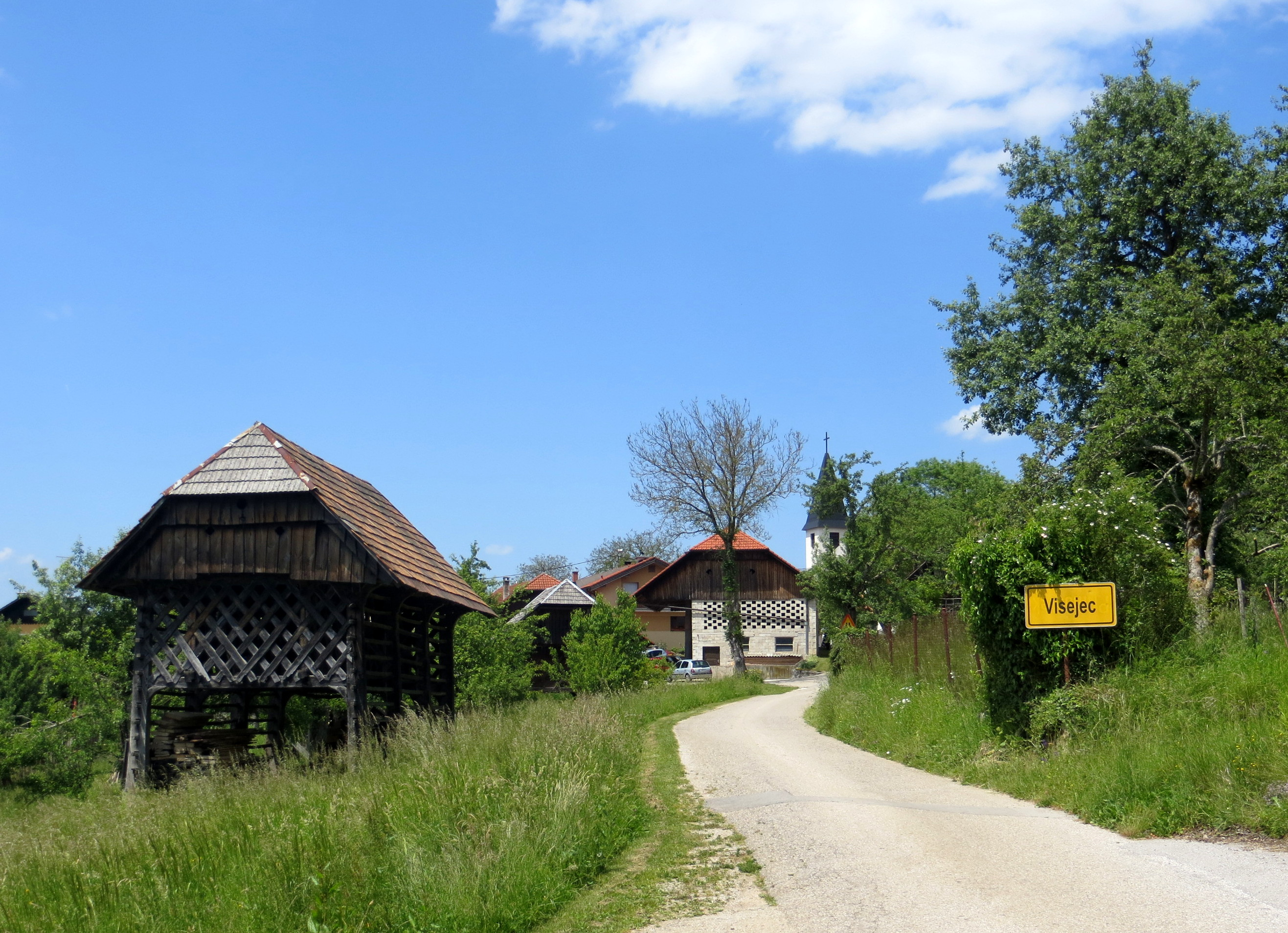 Visejec, Municipality of Žužemberk, Slovenia